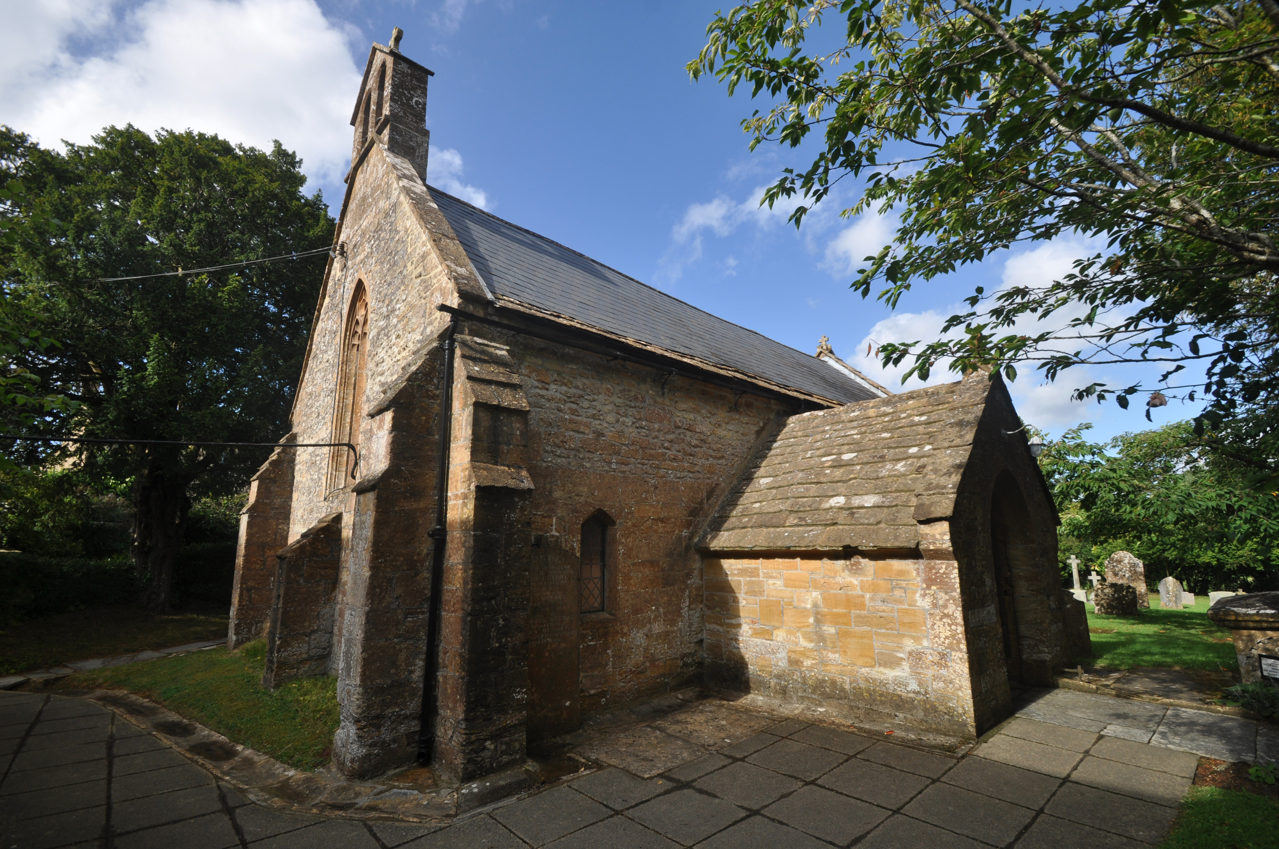 All Saints' parish church, Lopen, Somerset, seen from the southwest Wikidata has entry Q17553873 with data related to this item.